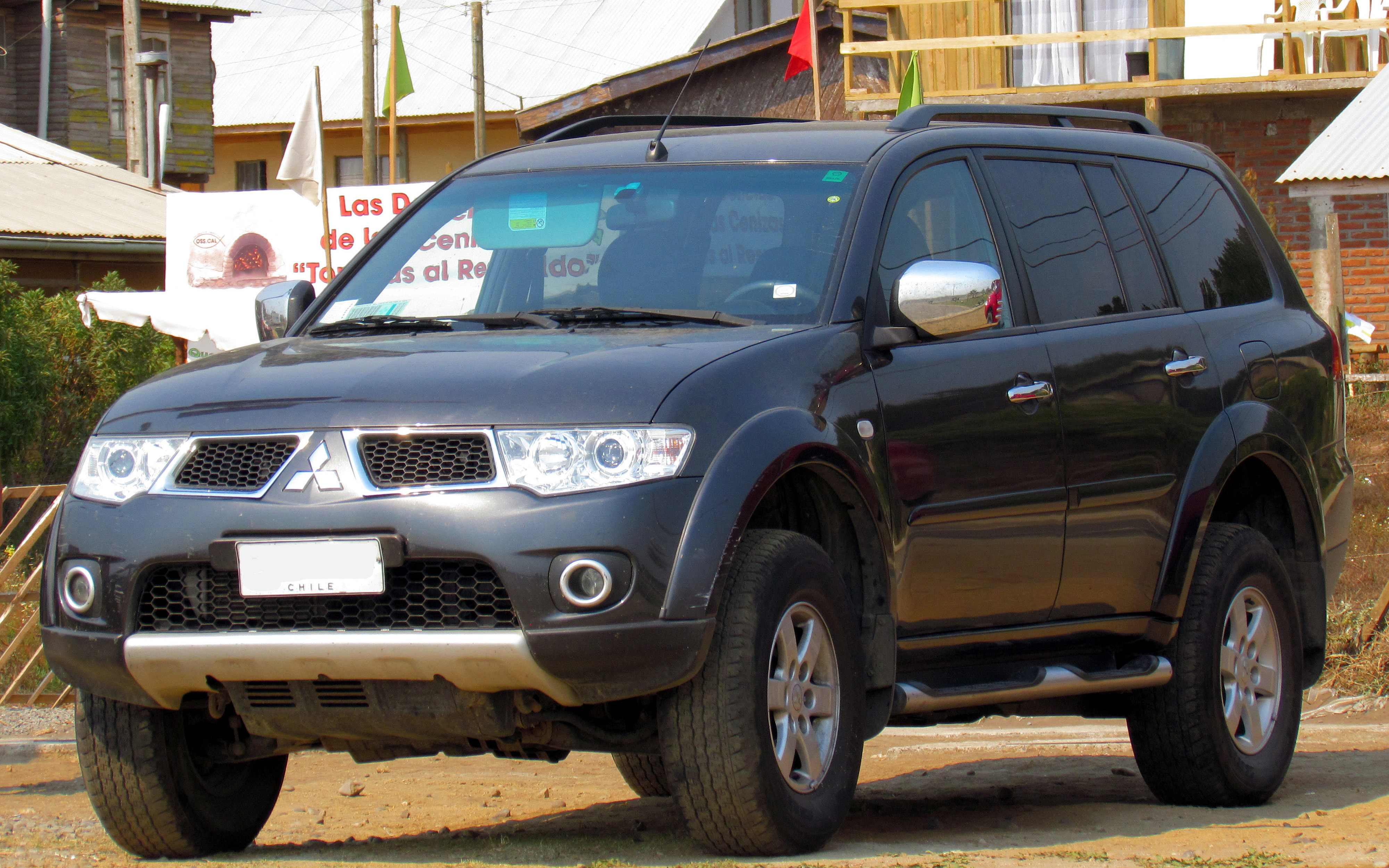 Mitsubishi Montero Sport G2 2013